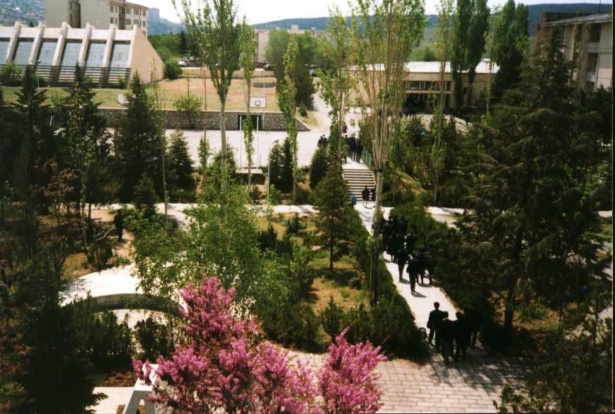 Ankara Science High School garden